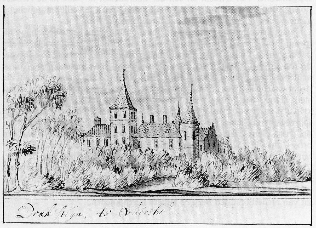 Drakenstein bij Lage Vuursche